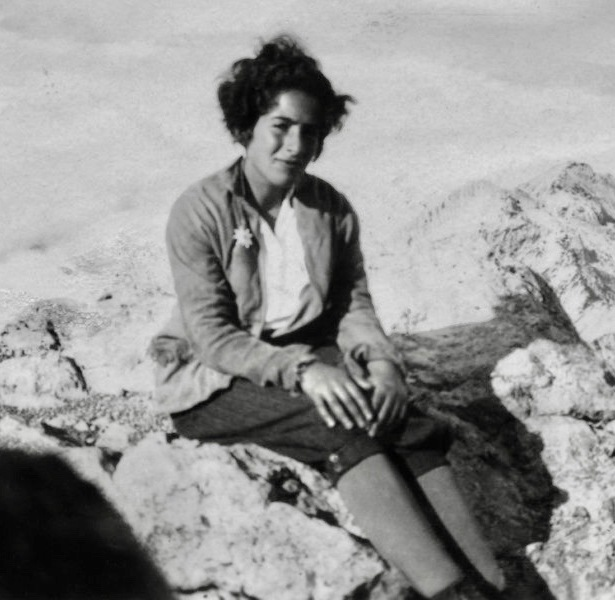 Margarete Elisabeth Dispeker (1906–1999), called "Grete", ca. 1932 on a summit of the Bavarian Alps (large lake in background). Later as Grete Weil she became well-known as writer, translator and photographer.